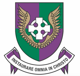 A crest representing the Order of the Knights of St Columbanus, including the motto of the Order and a celtic cross.